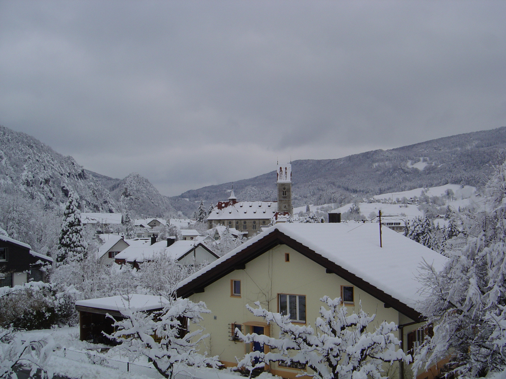 A view on Balsthal (Switzerland) in winter